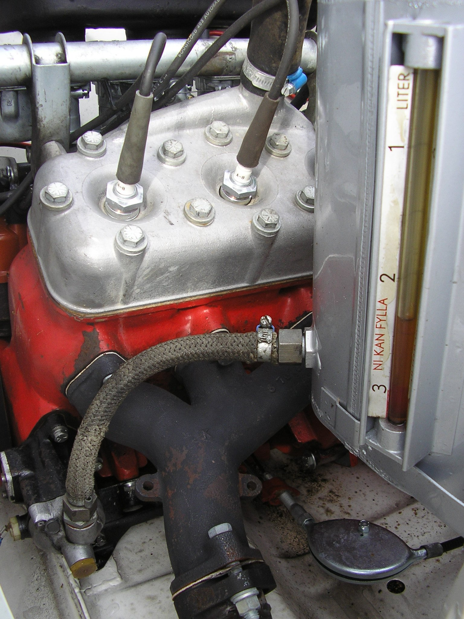 Engine bay of a SAAB Sport. Photographed at the International SAAB Club Meeting 2006. Unlike the standard two-stroke engine that required oil to be mixed with the petrol it has a separate oil tank visible to the right.